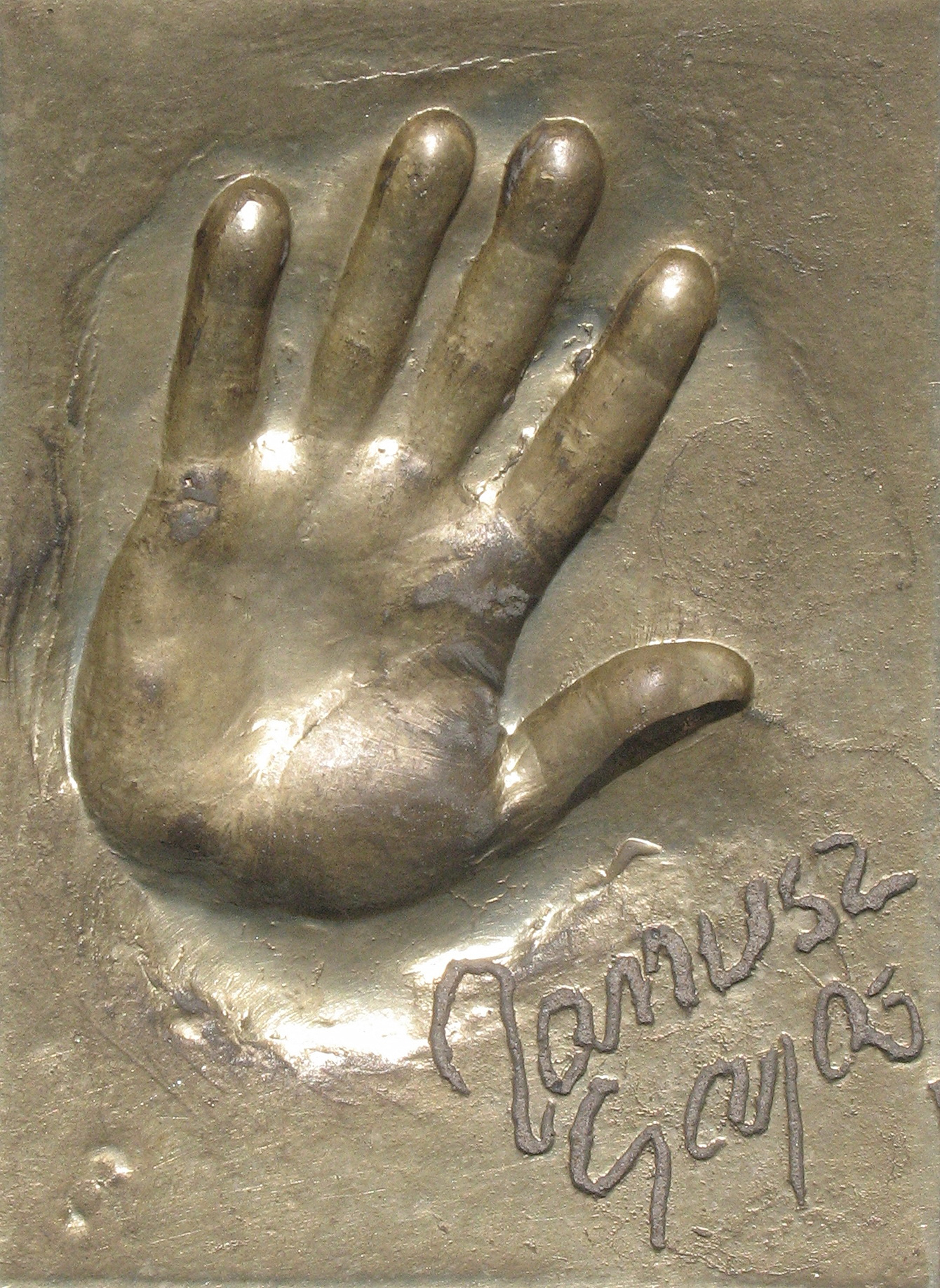 Janusz Gajos - handprint and signature in Międzyzdroje